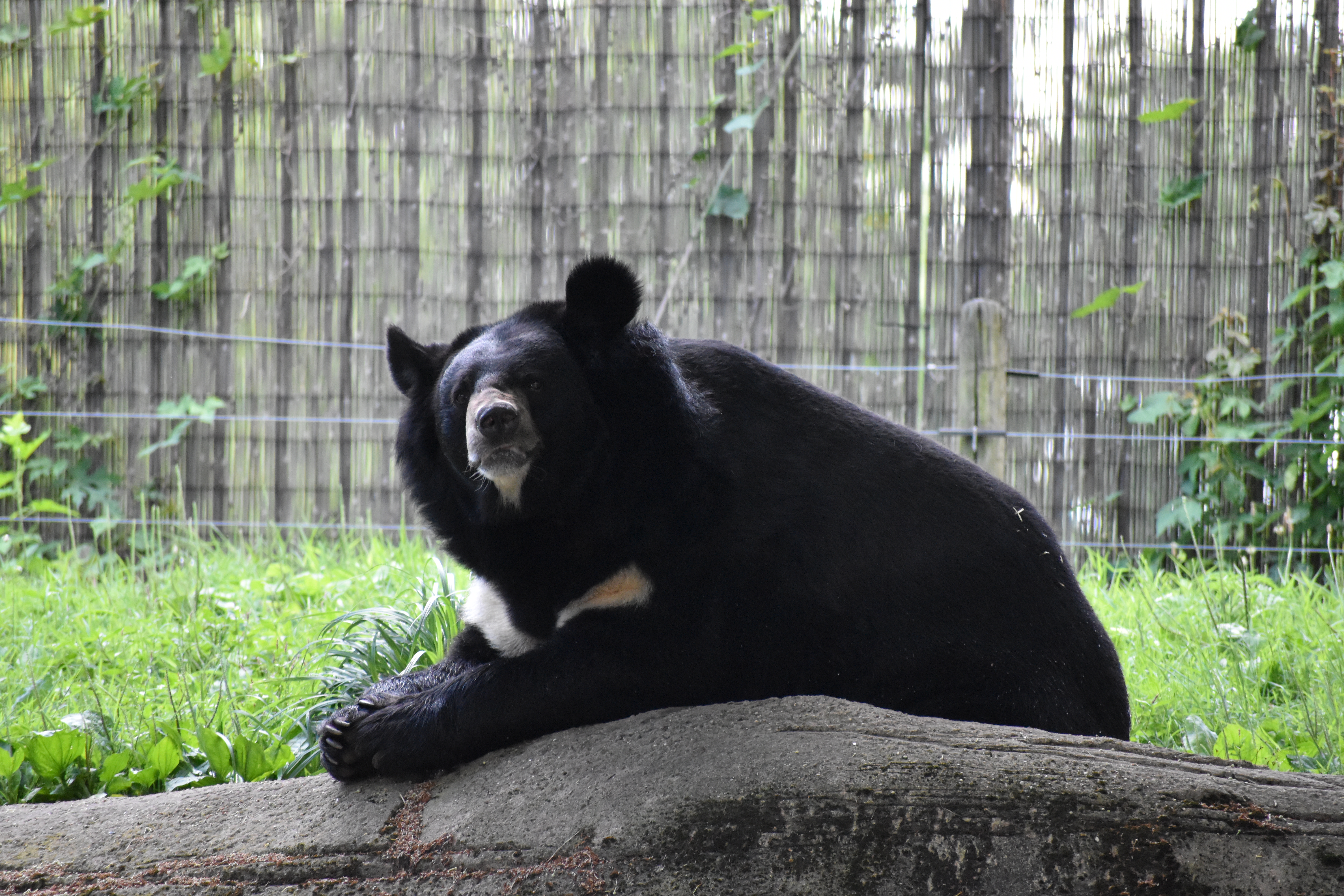 This photo is titled "phillyzoogrp5DSC_0157" by lwolfartist (Laura Wolf) and it shows an Asiatic Black Bear sitting on a rock.